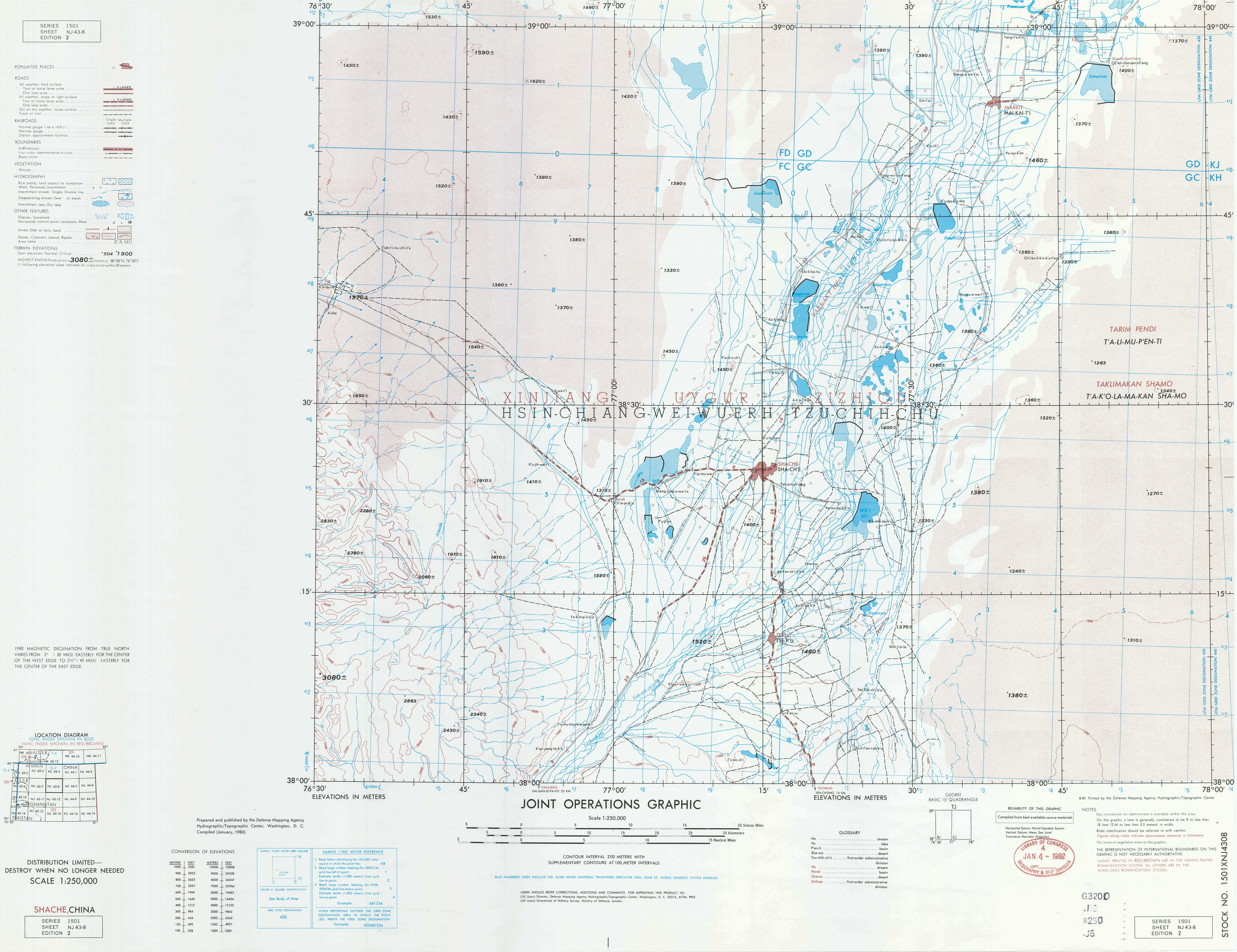 NJ-43-8 Shache, China